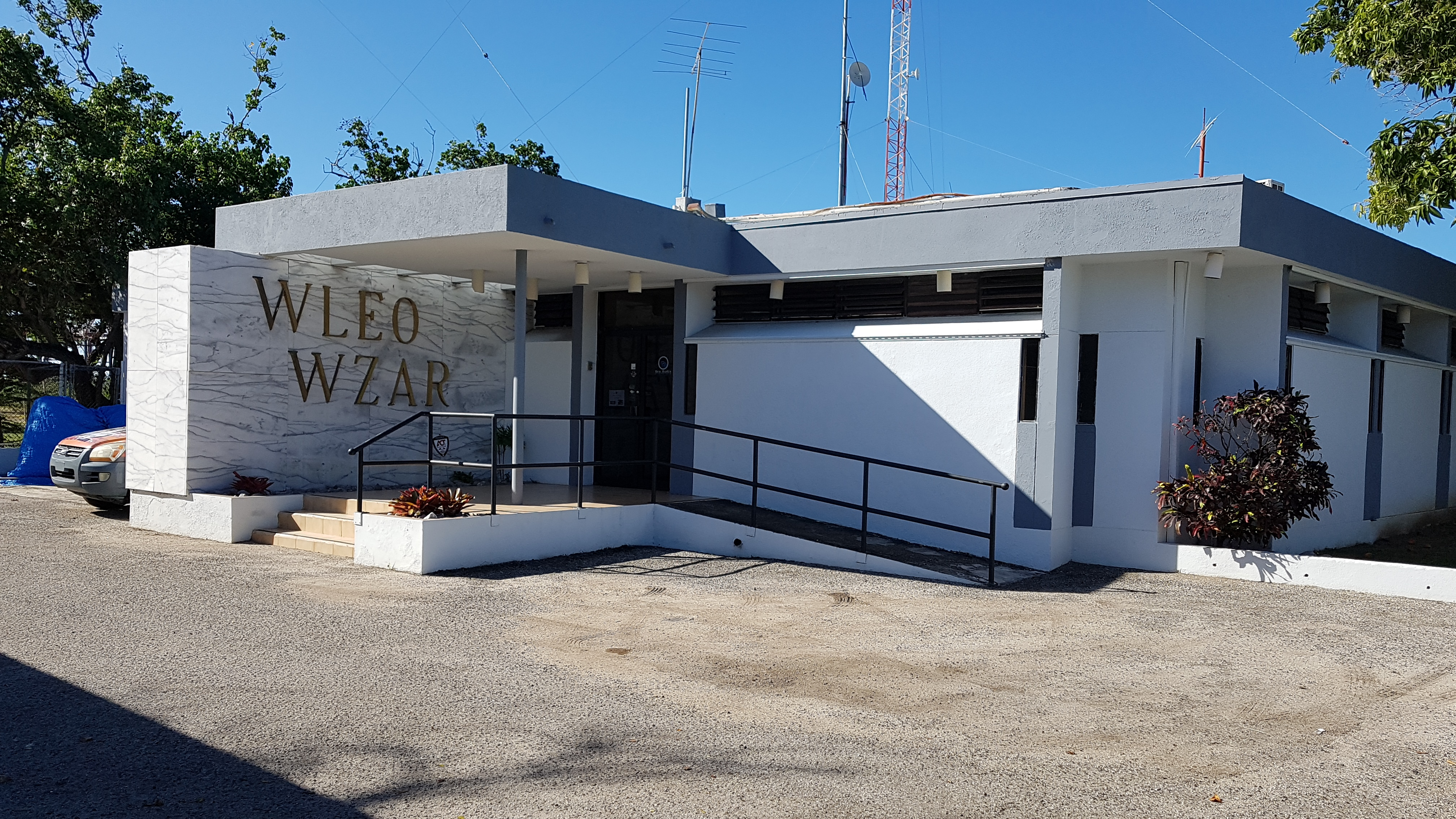 Estacion Radial WLEO, en Puerto Viejo, Barrio Playa, Ponce, PR (20181230 095907)